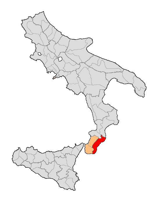 Locator map of Distretto di Gerace